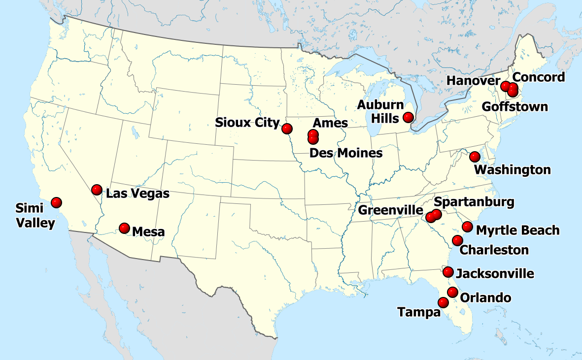 The 18 cities hosting RNC debates in the 2012 electoral cycle.